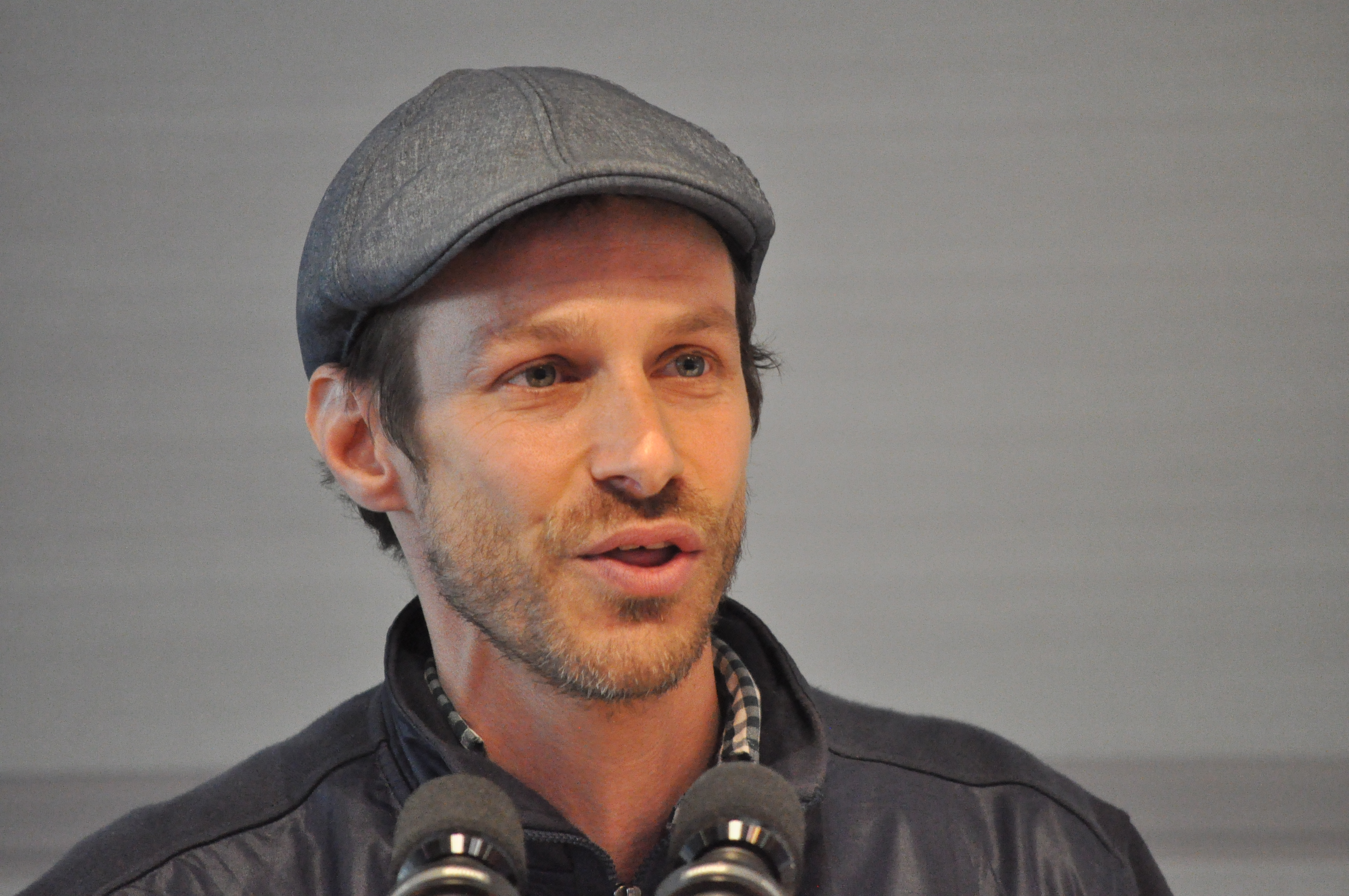 Jody Rosen appearing at the 2012 Pop Conference, at NYU.